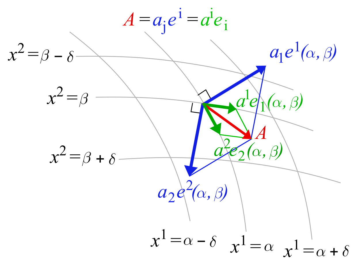 covector-contravector basis